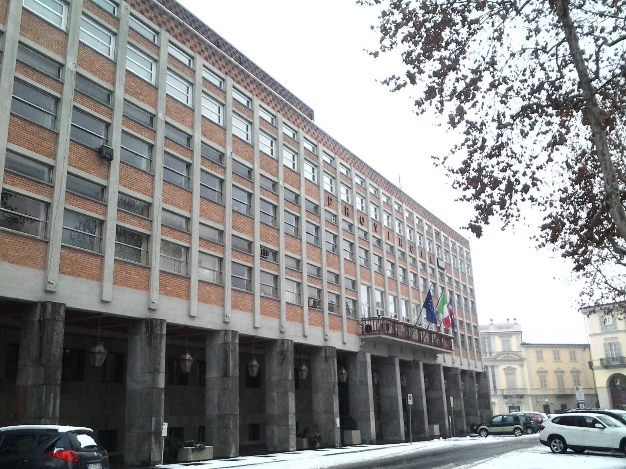 Palace of Province of Asti (begun in 1958 and completed in 1961)